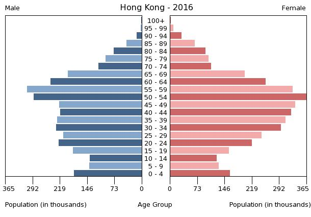 The population pyramid of Hong Kong illustrates the age and sex structure of population and may provide insights about political and social stability, as well as economic development. The population is distributed along the horizontal axis, with males shown on the left and females on the right. The male and female populations are broken down into 5-year age groups represented as horizontal bars along the vertical axis, with the youngest age groups at the bottom and the oldest at the top. The shape of the population pyramid gradually evolves over time based on fertility, mortality, and international migration trends.